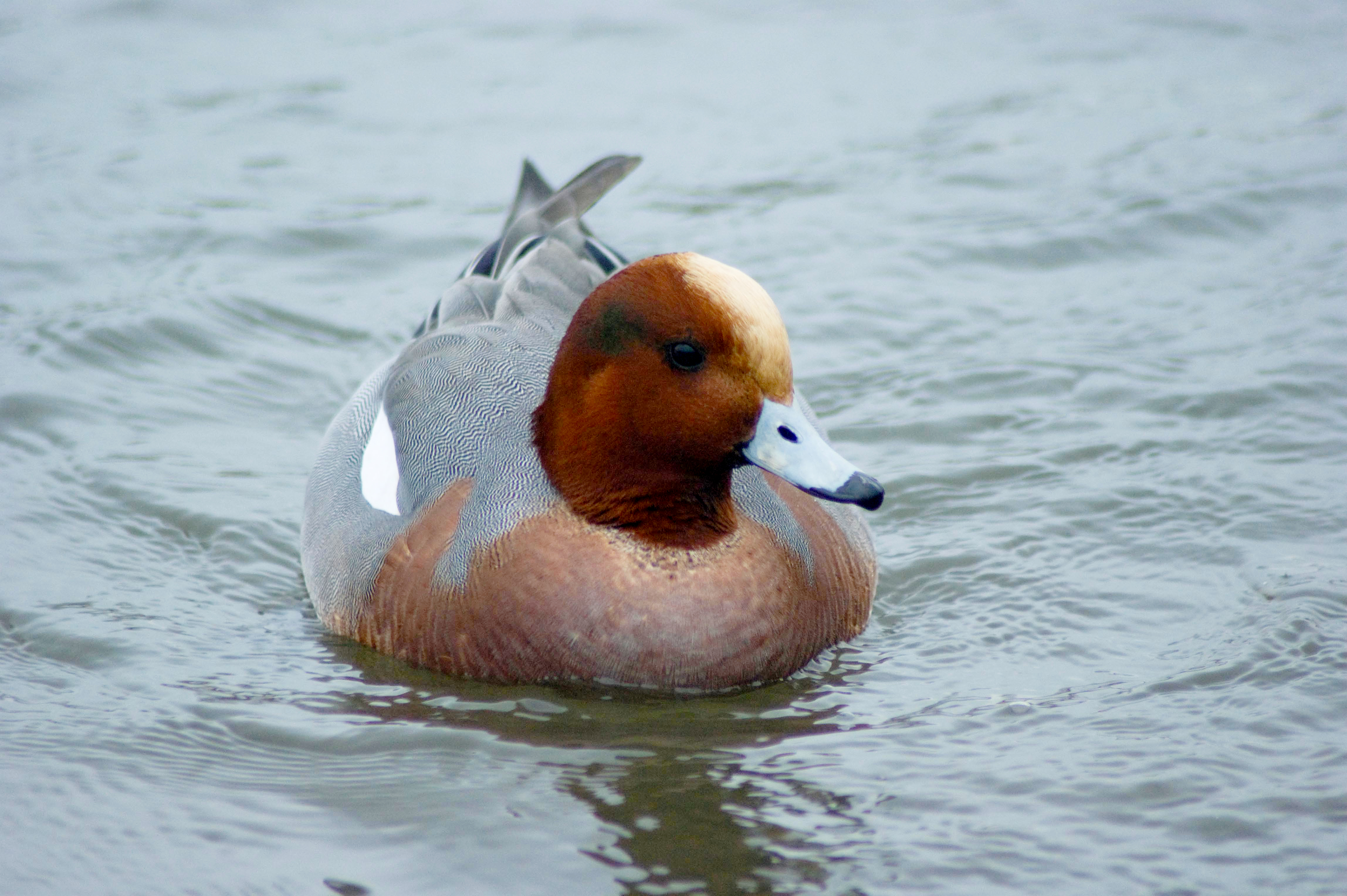 A male Eurasian Wigeon swimming at Blakeney National Nature Reserve, Norfolk, England.